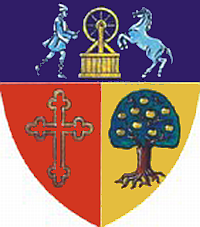 Coat of arms of Vâlcea County, Romania.